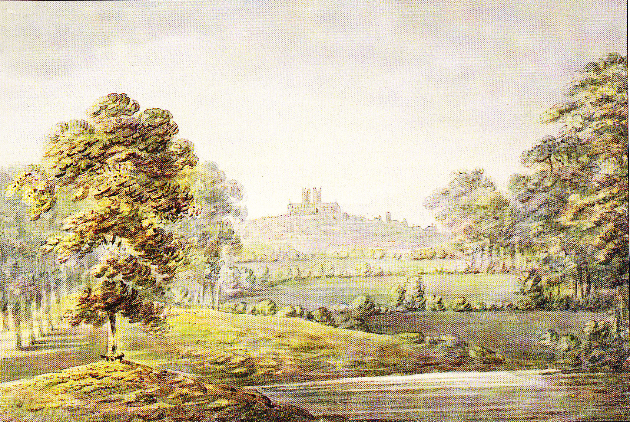 Watercolour of Exeter Cathedral viewed from Cowick, by Rev. John Swete dated 1801. Devon Record Office 564M/F1/223. Published in Gray, Todd (Ed.), Travels in Georgian Devon: The Illustrated Journals of the Reverend John Swete, 1789-1800, 4 Vols., Vol.1, 1998, Tiverton, p.55